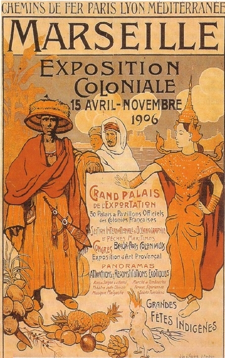 Poster for the 1906 Exposition Coloniale in Marseille